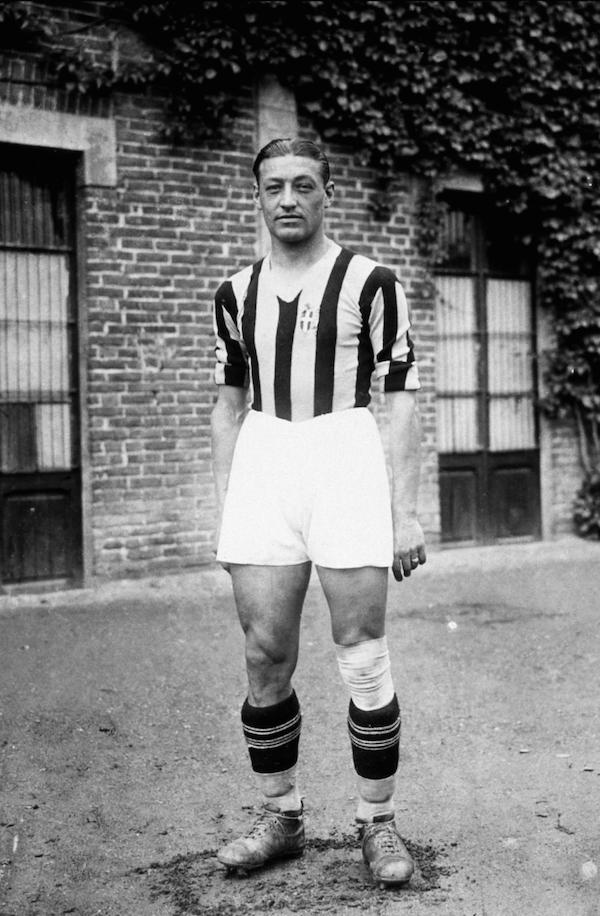 Italian footballer Umberto Caligaris with F.B.C. Juventus in the 1930s, posing outside the "Campo Juventus" (Juventus Ground) in Turin, Italy.